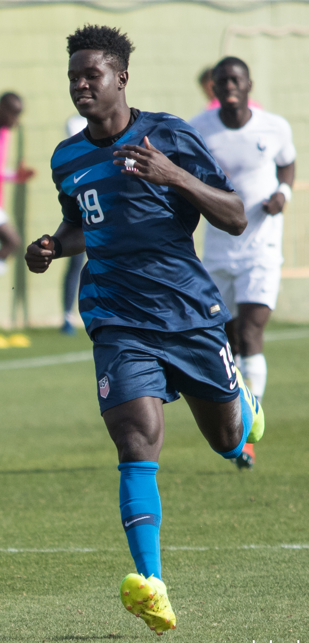 USA U20 v France U20, 22 March 2019